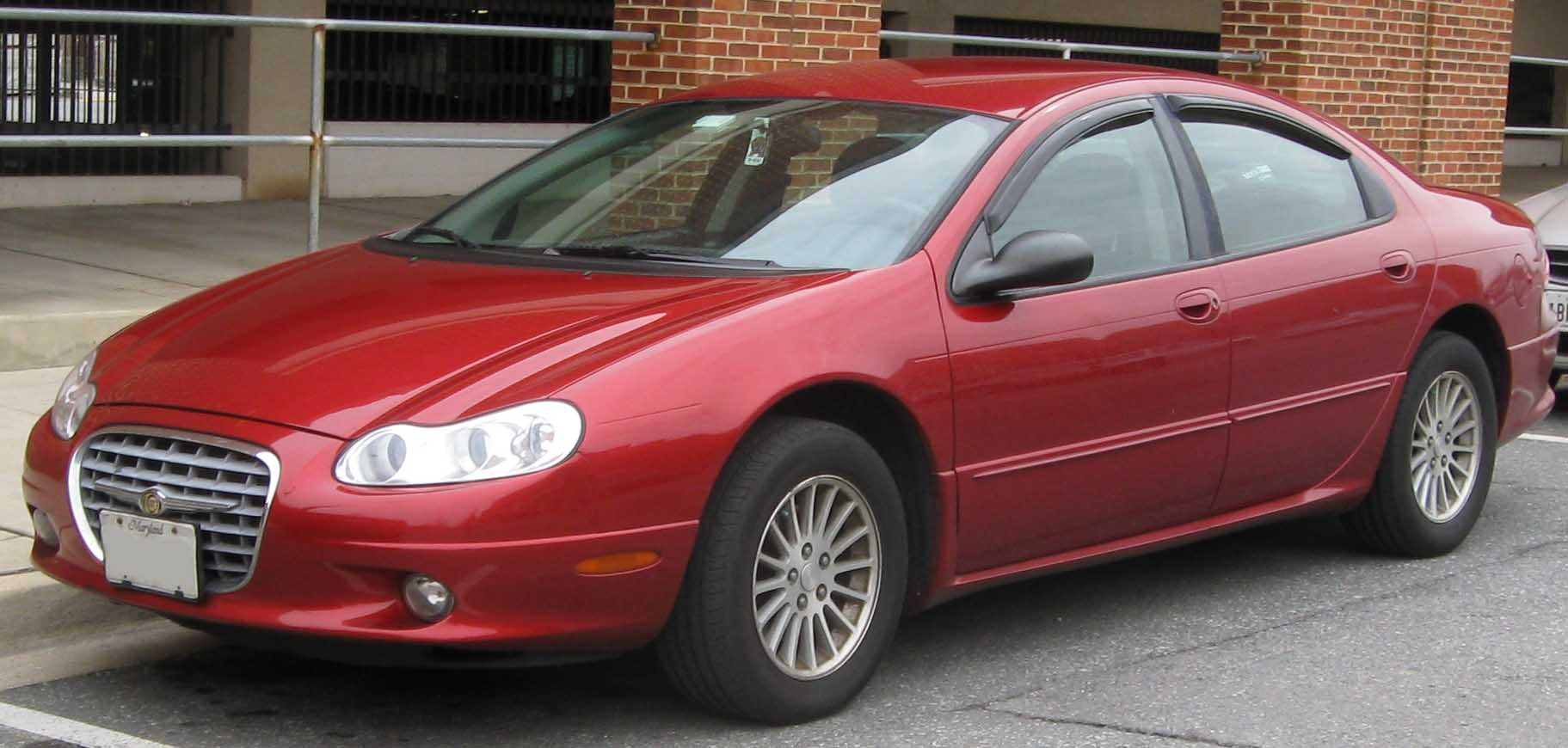 2002-2004 Chrysler Concorde LXi photographed in College Park, Maryland, USA.